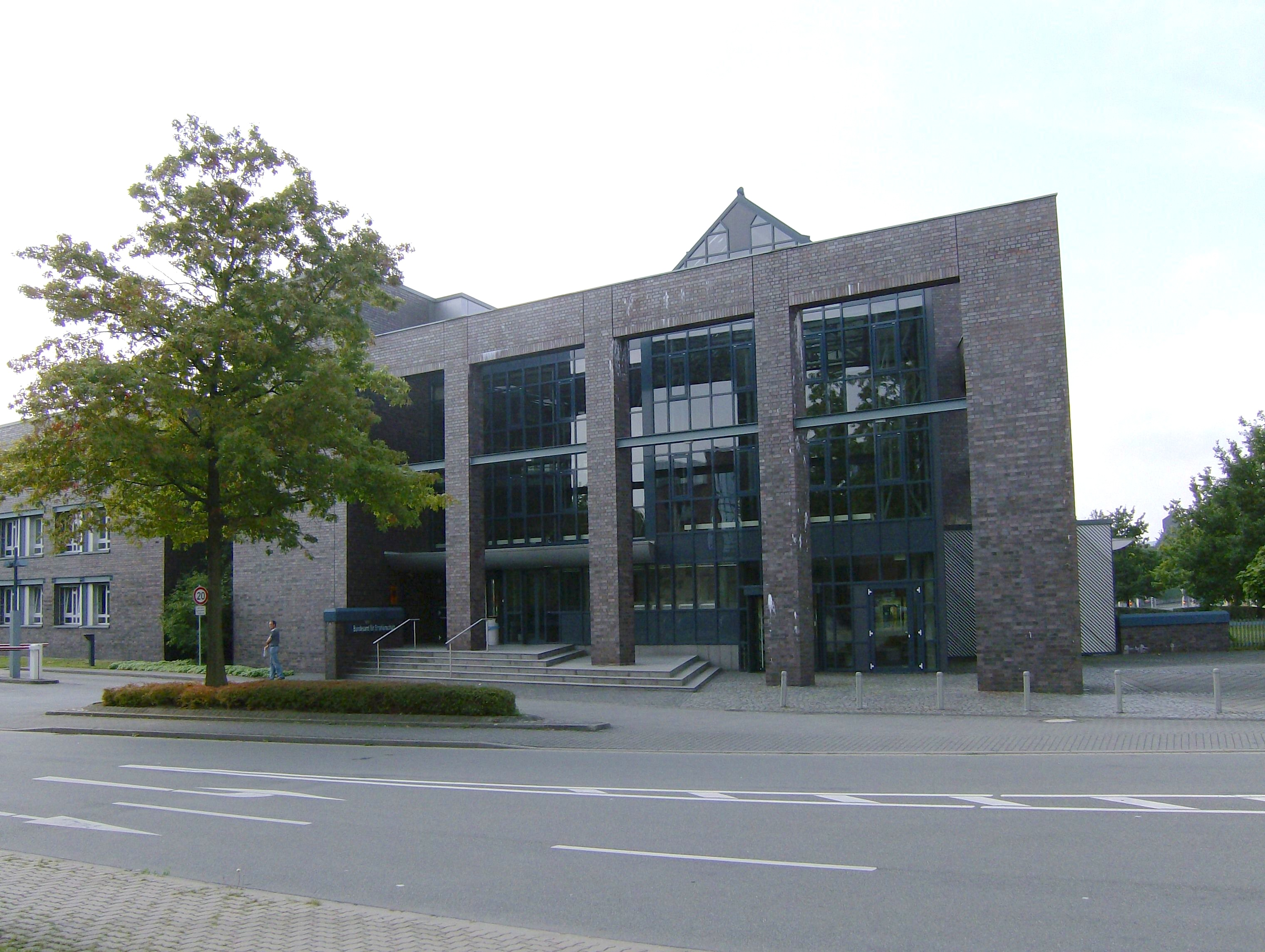 Main building of the Bundesamt für Strahlenschutz (Federal Authority for Radiation Protection) in Salzgitter Lebenstedt